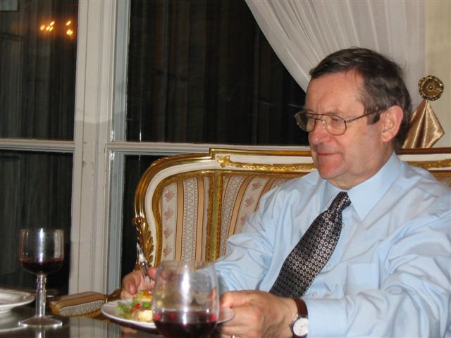 Norman Davies (b. 1939), british historian